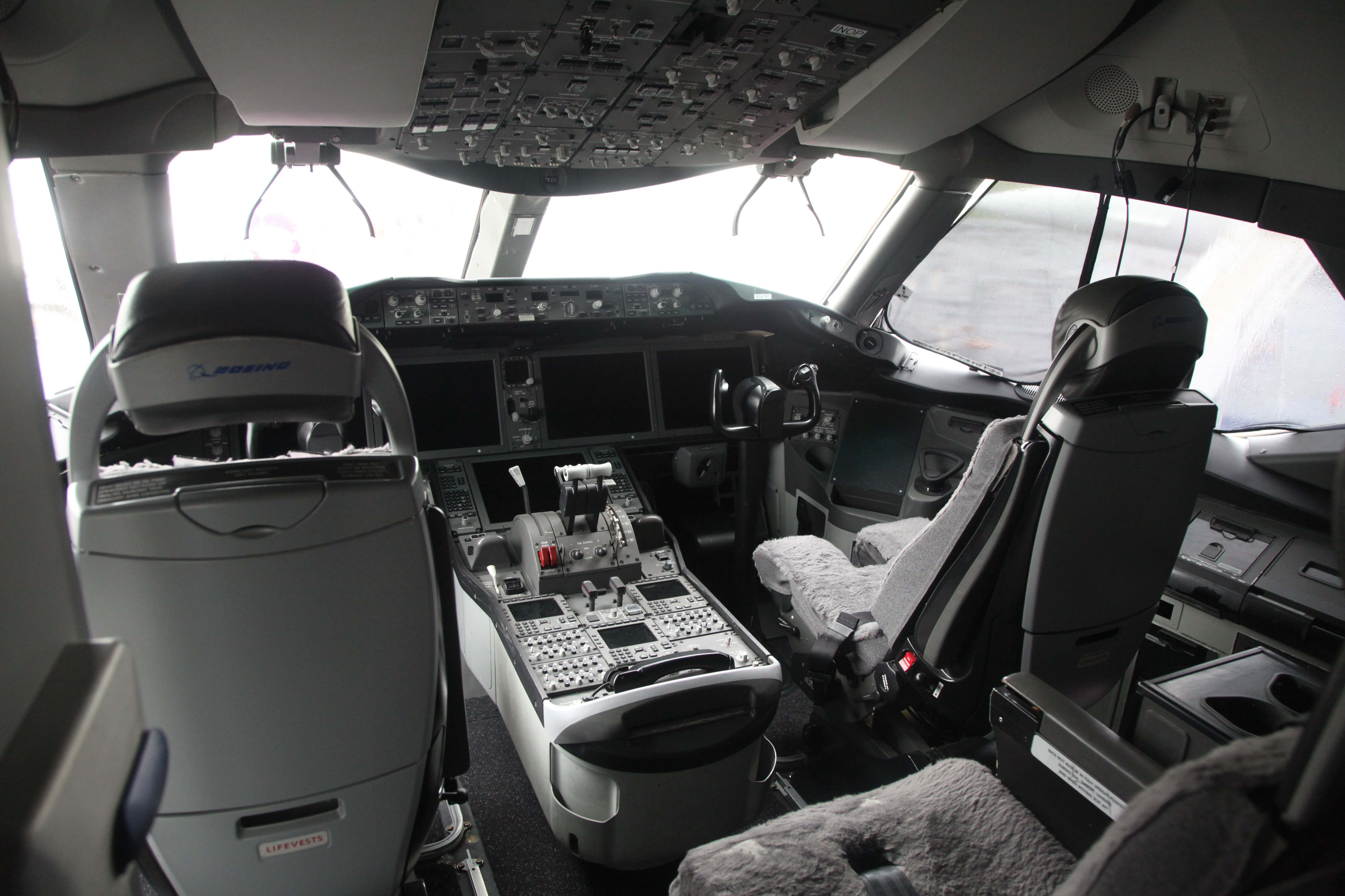 Boeing 787 cockpit at the Museum of Flight near Seattle